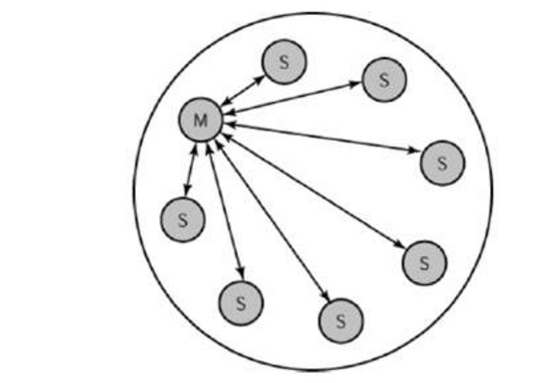 Topology Srpski (latinica): Topologija piconet-a